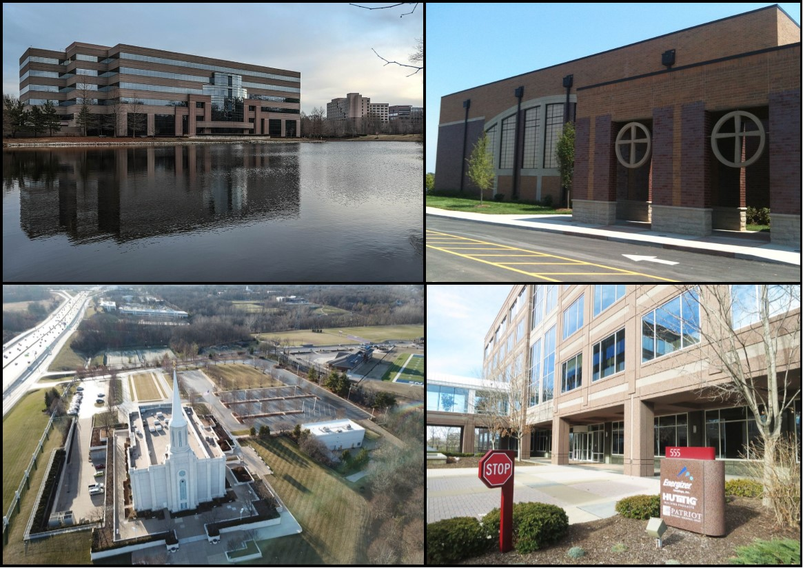 Collage of Town and Country, Missouri